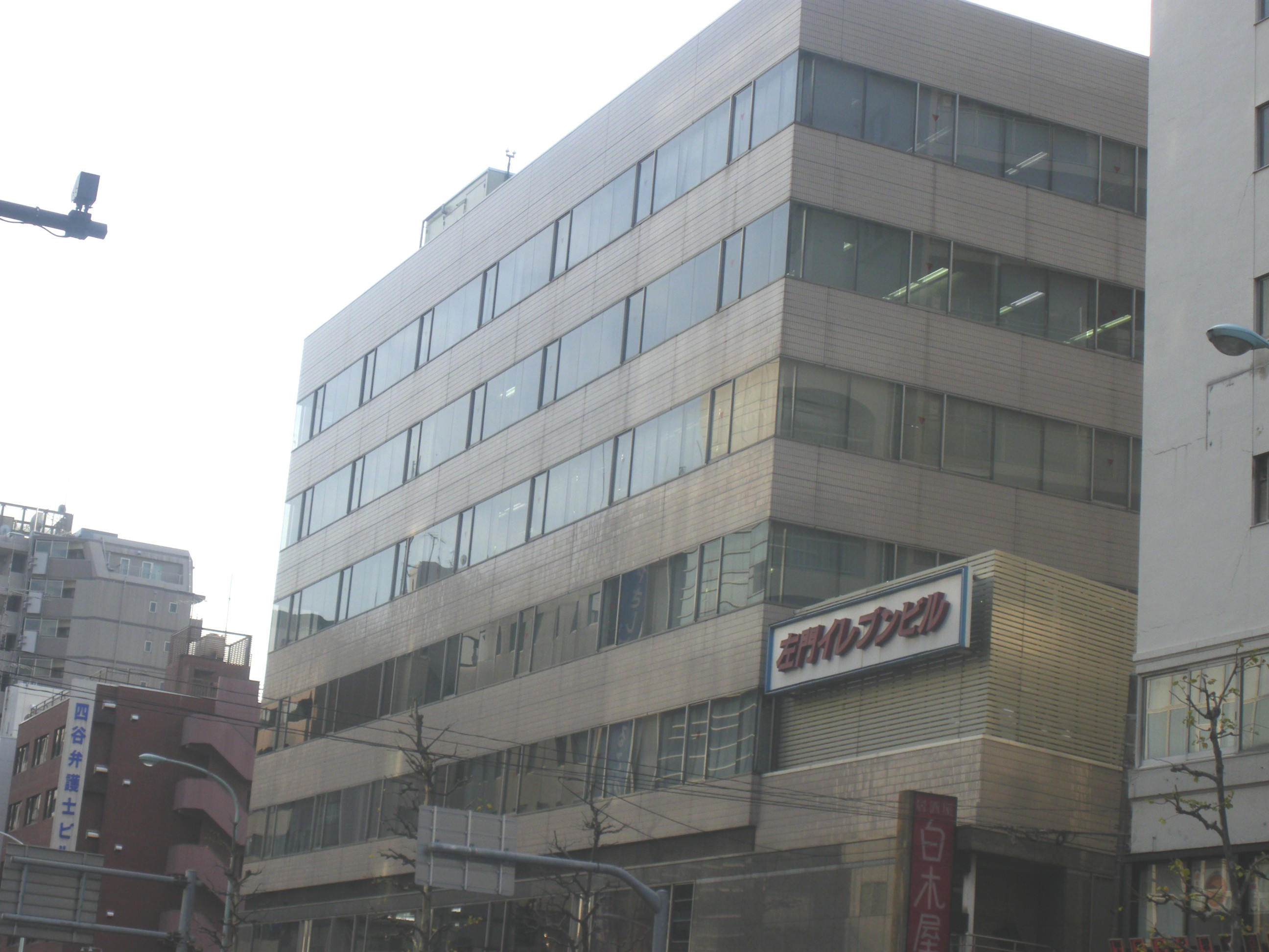 A photo of Samon Eleven Building,Samoncho,Shinjuku-ku,Tokyo,Japan.